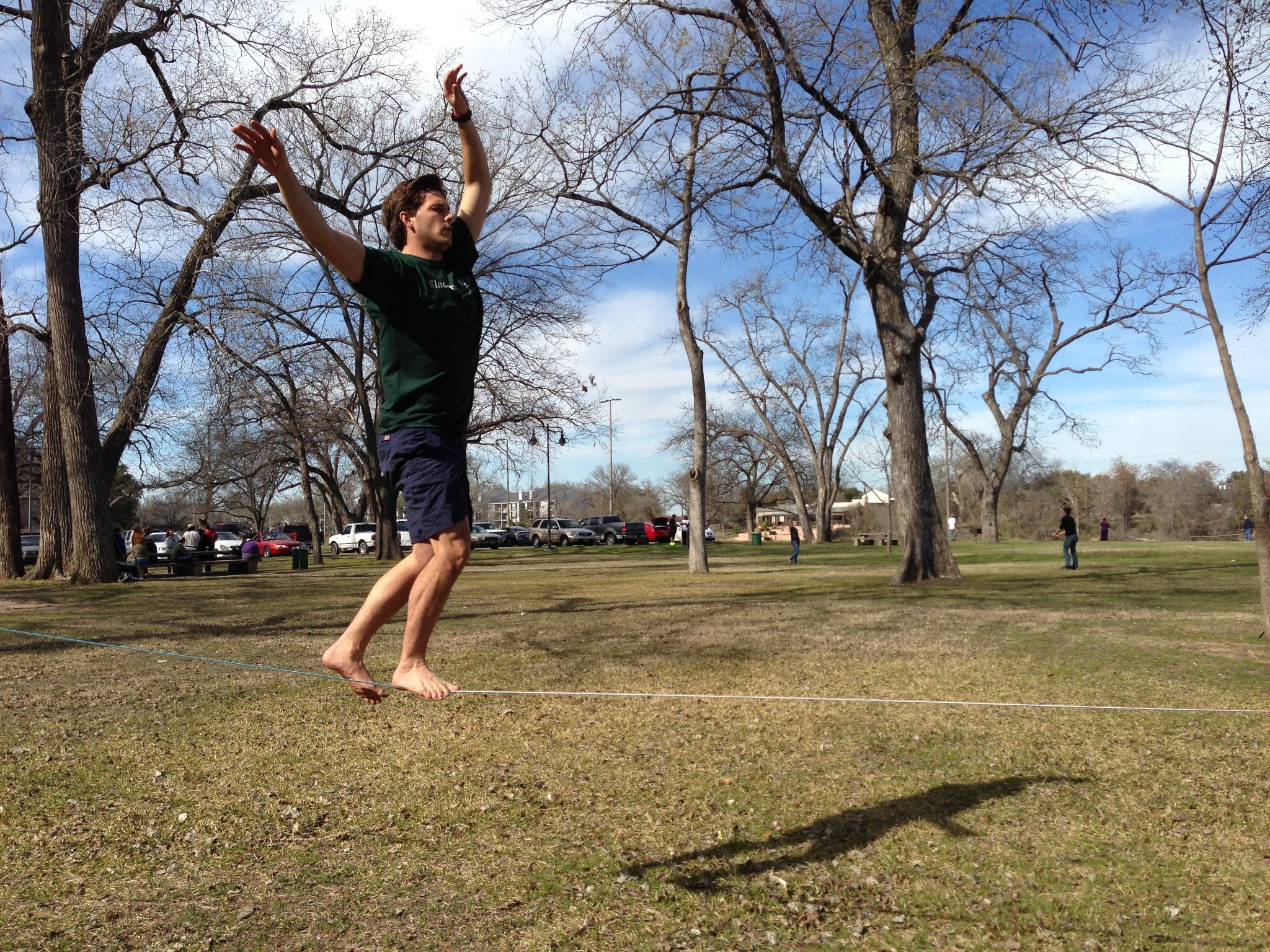 This is a picture of a person walking a longline in the park.